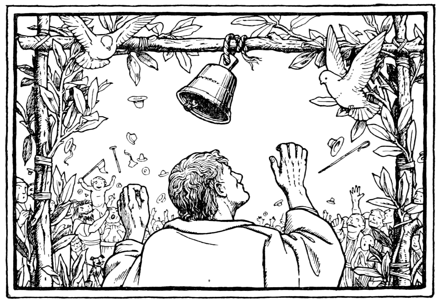 Illustration from a book of fairy tales from Europe, translated into english